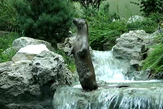 Otter.